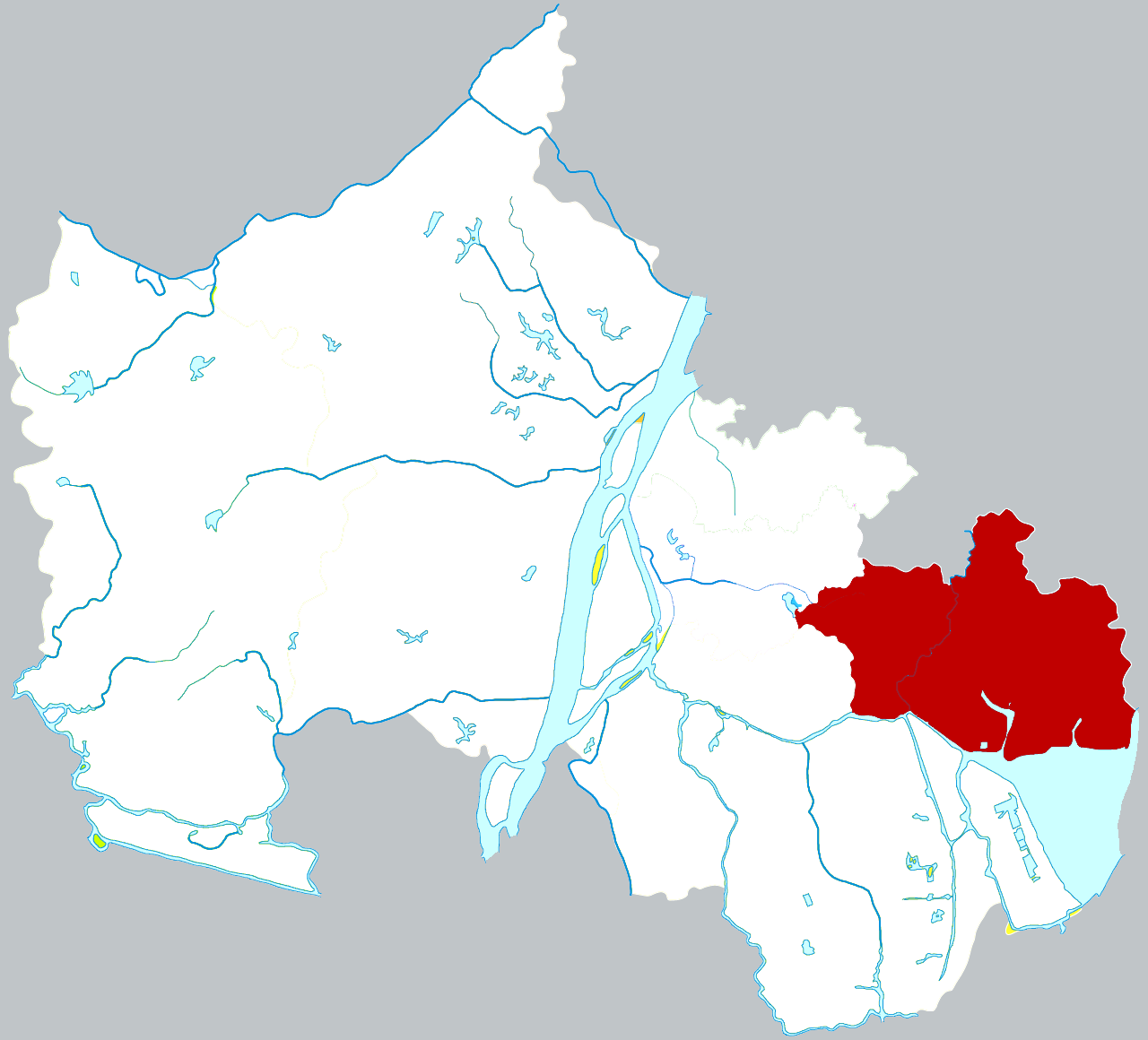 Location of Bowang district in Ma'anshan city, China